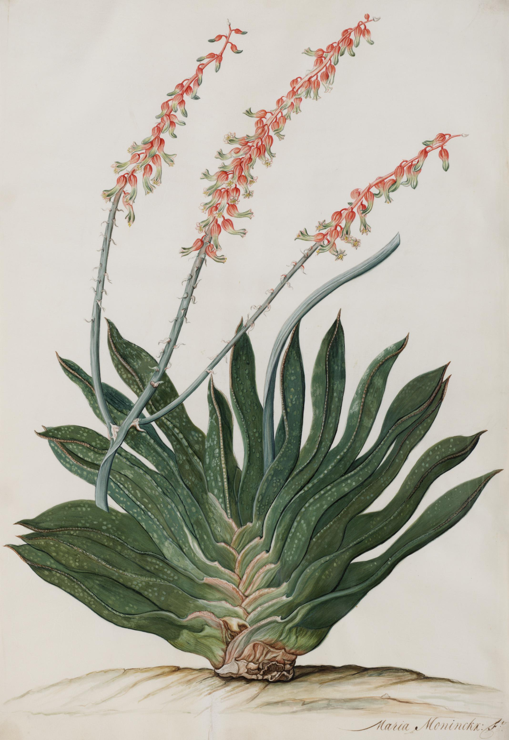 Gasteria nigricans (Haw.) Duval - From the Moninckx Atlas